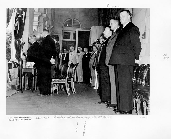 Proclamation Ceremony, Parliament House. (The caption indicates that Lt Gen Sir John Lavarack, Governor of Qld is speaking and makes reference to Muhl, McAllister and J Mann MLA.)